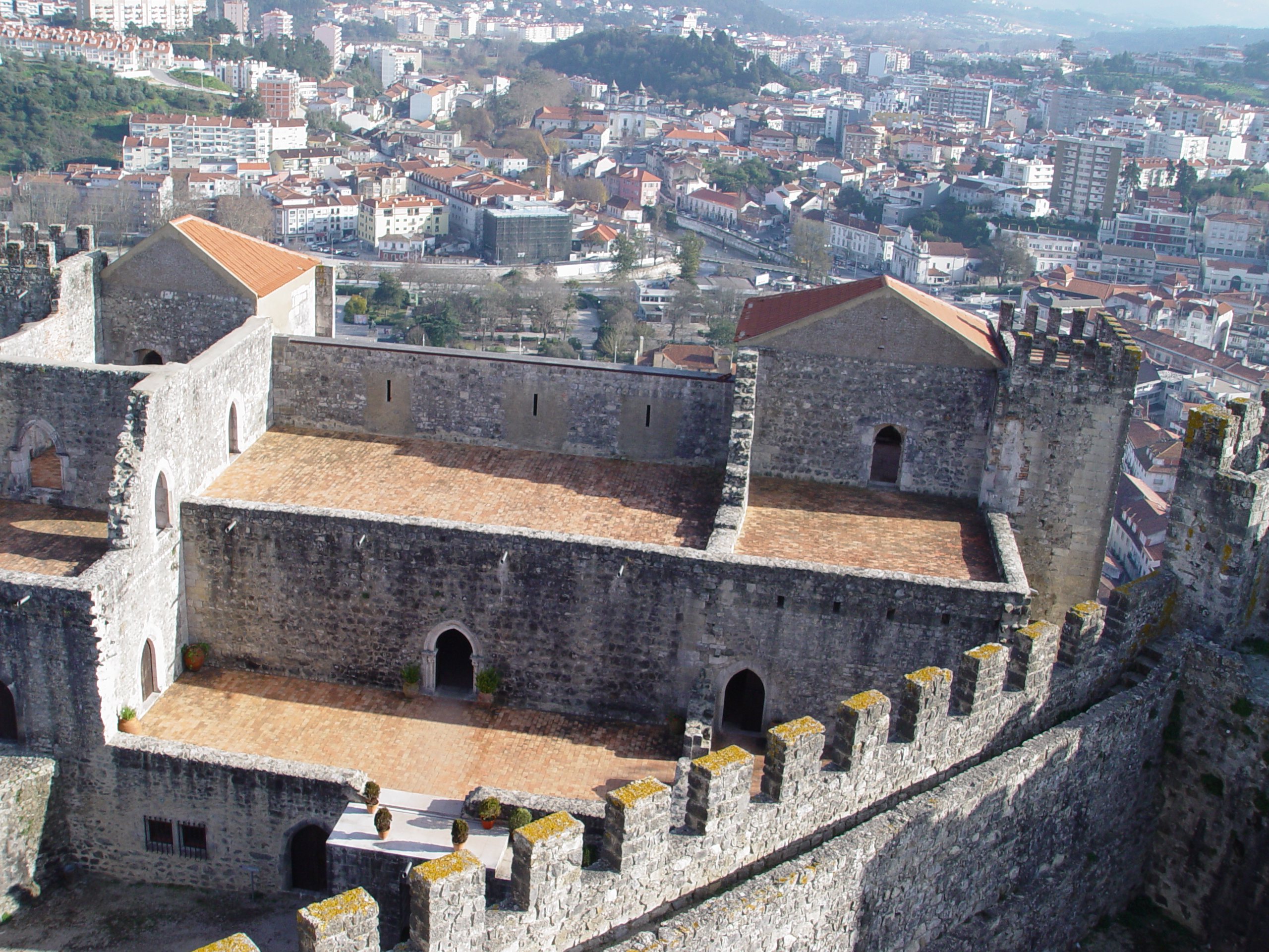 Author: Orium